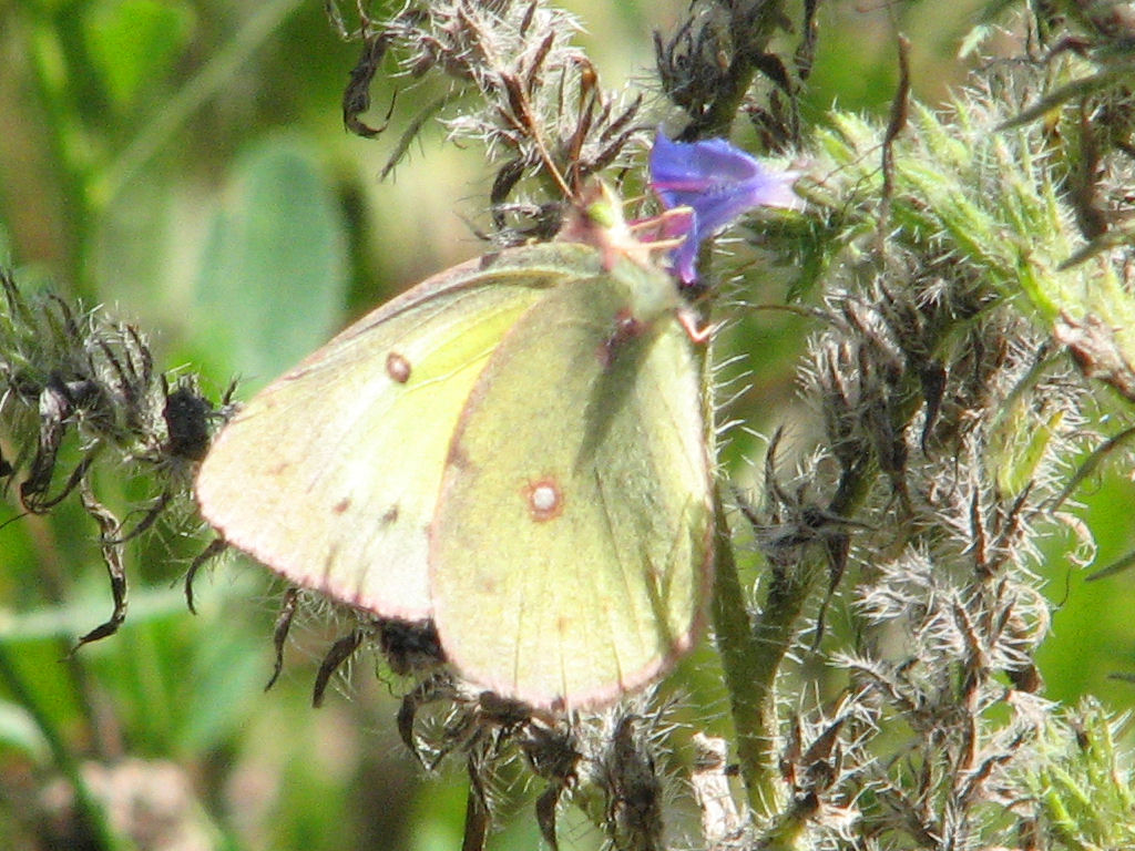 Pink-edged Sulphur (Colias interior), Prince Edward Point, Prince Edward County, Ontario